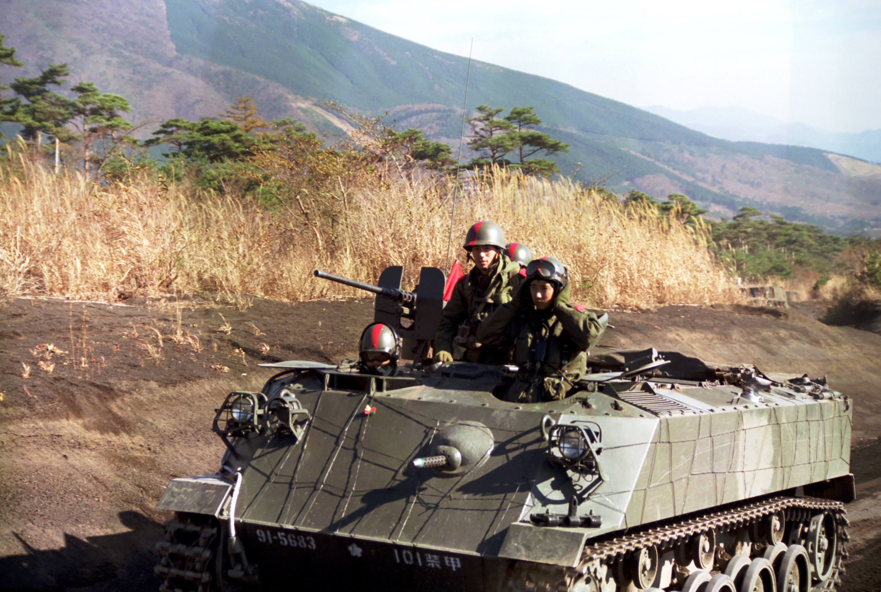 A Japanese Self Defense Force SU-60 armored personnel carrier moves down a dirt road during the joint US/Japanese Exercise ORIENT SHIELD '85.